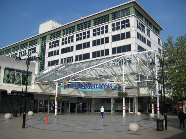 Uxbridge: The Pavilions This is the High Street entrance to The Pavilions shopping centre, one of two in Uxbridge, the other being the Chimes.